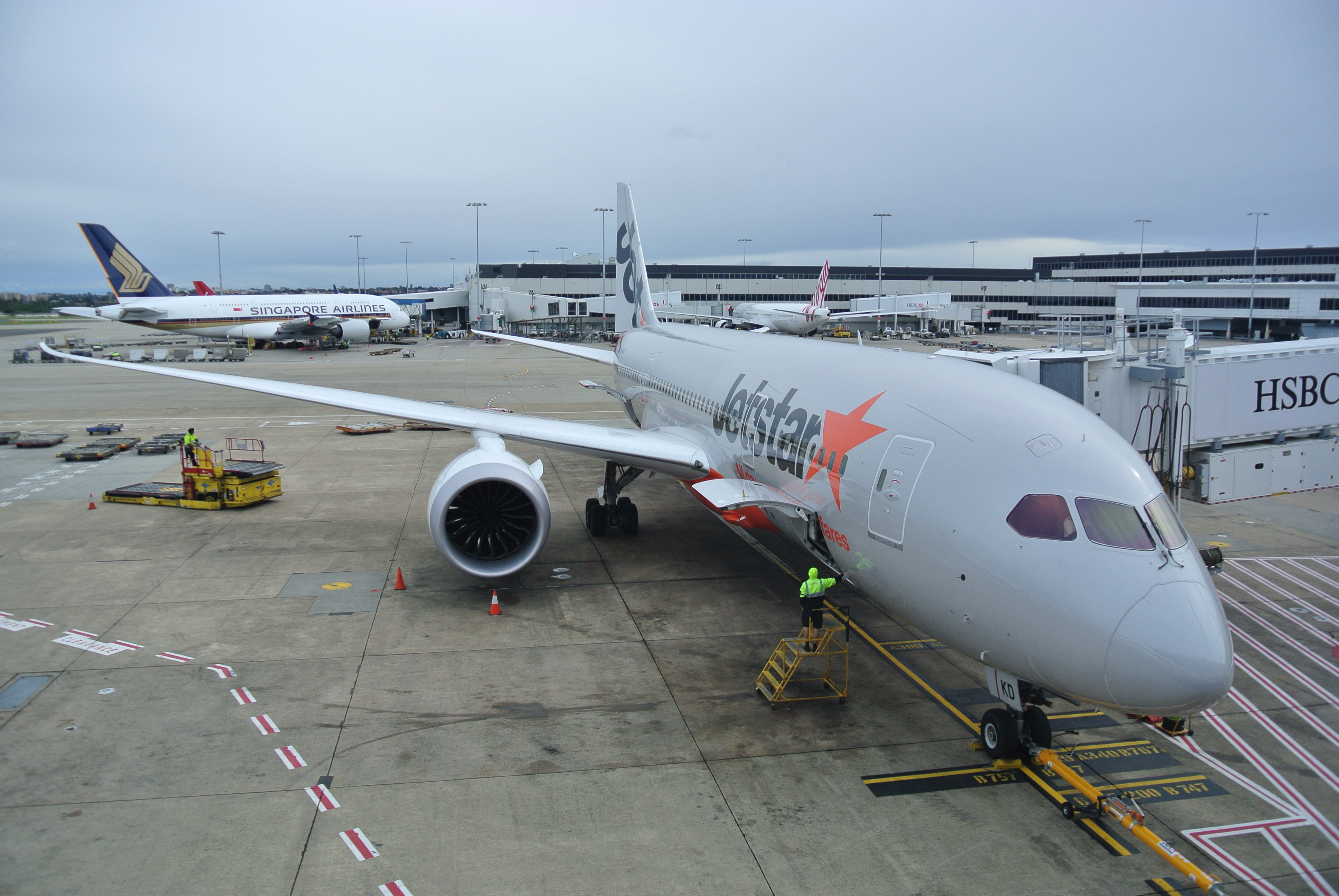 Jetstar 787 at Sydney Airport中文（中国大陆）: 捷星航空787在悉尼国际机场